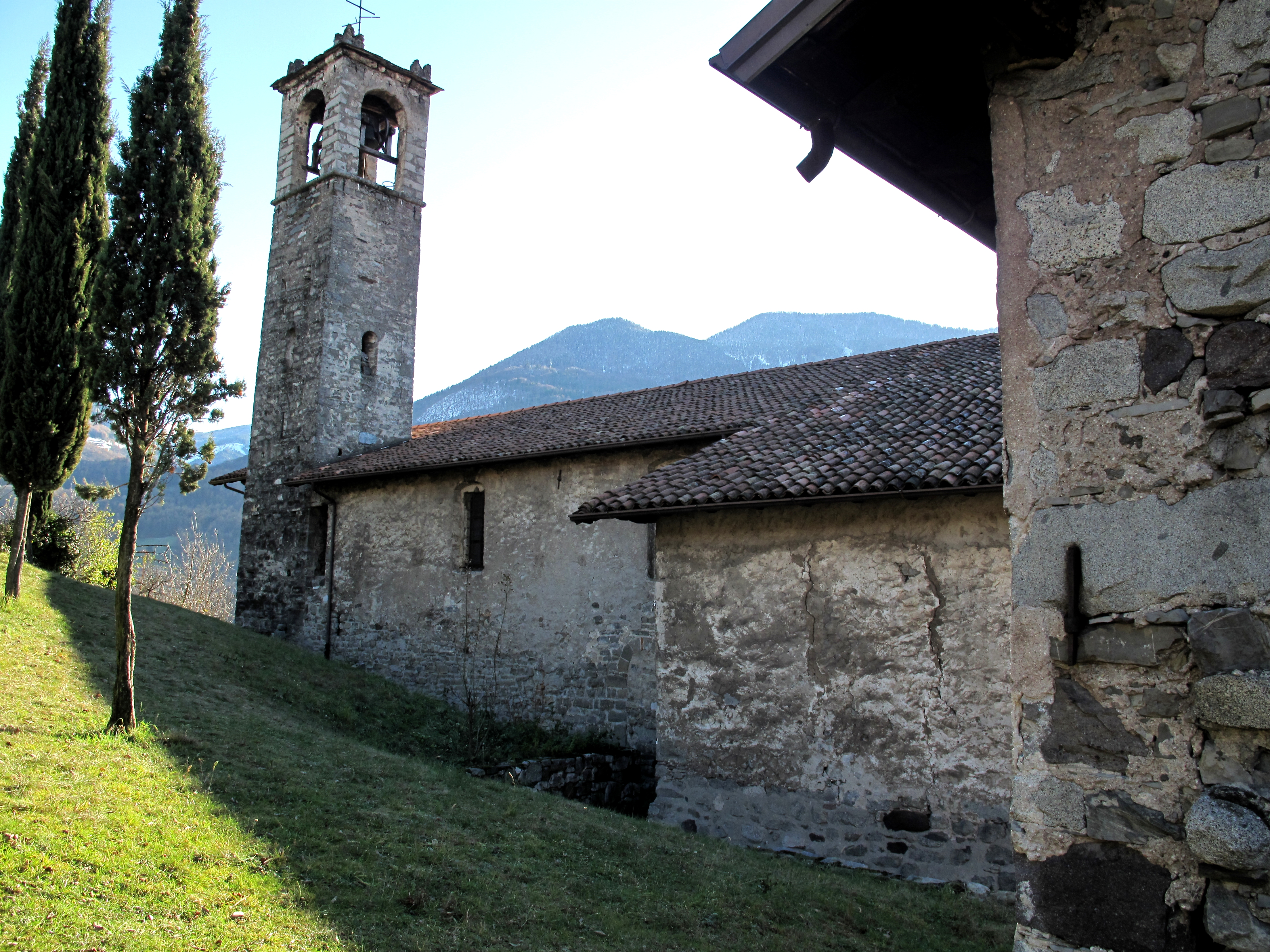 West side of Colle di San Lorenzo in Berzo Inferiore (Brescia - Italy) Lato ovest della chiesa di San Lorenzo, a Berzo Inferiore (BS)